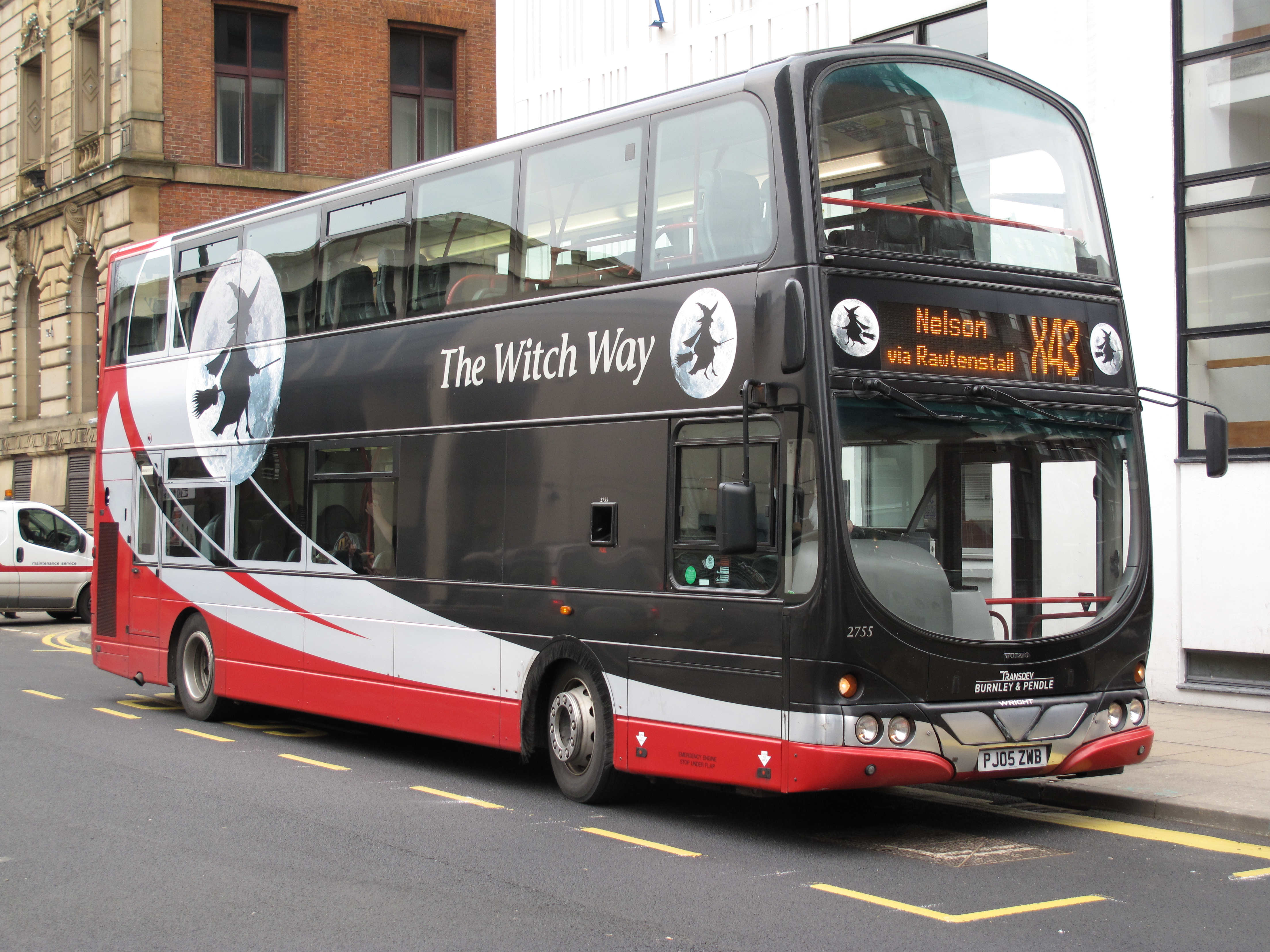 The Witch Way bus in Manchester.